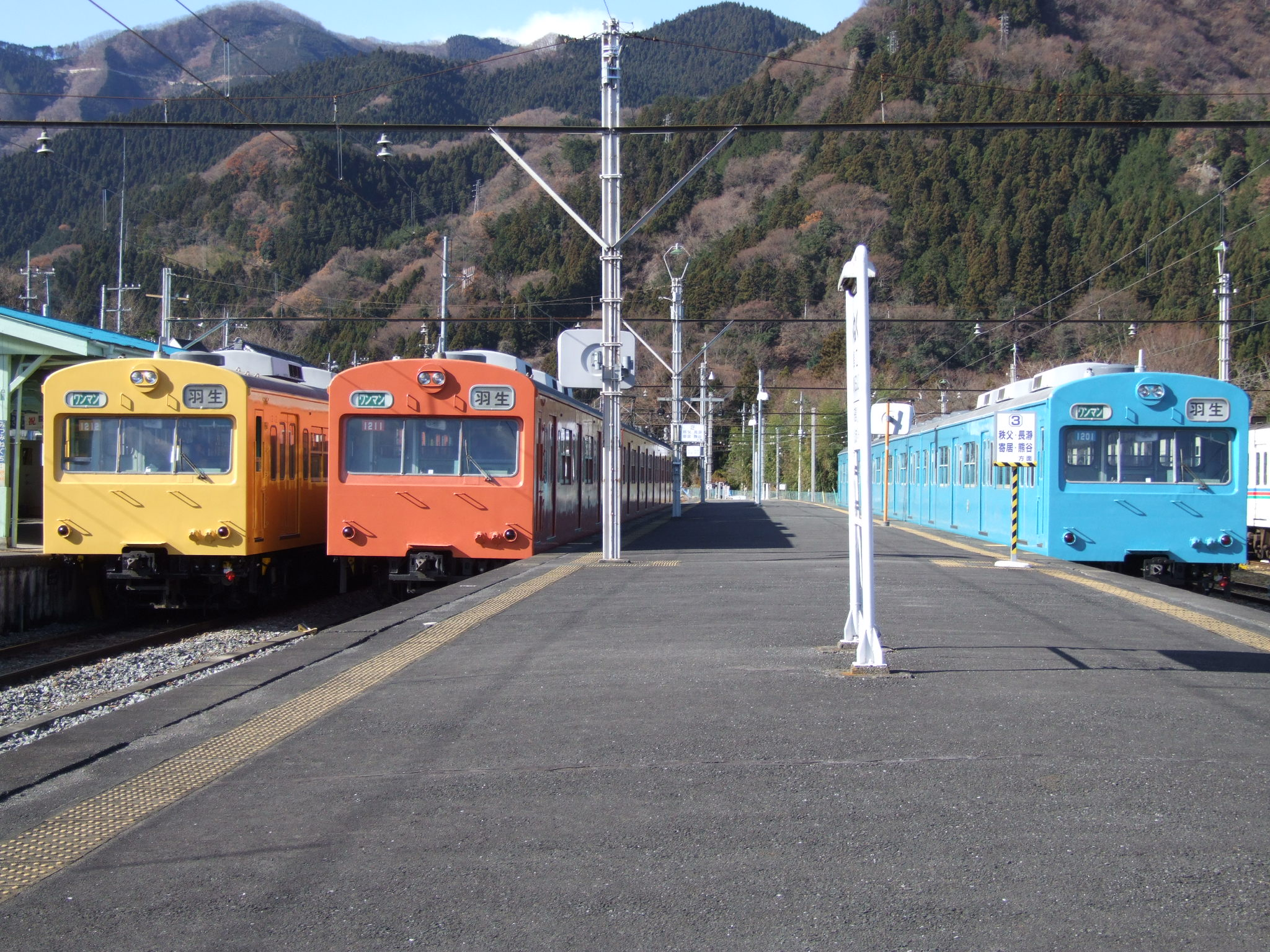 Three Chichibu Railway 1000 series EMUs in revival JNR liveries at Mitsumineguchi Station in Saitama Prefecture, Japan